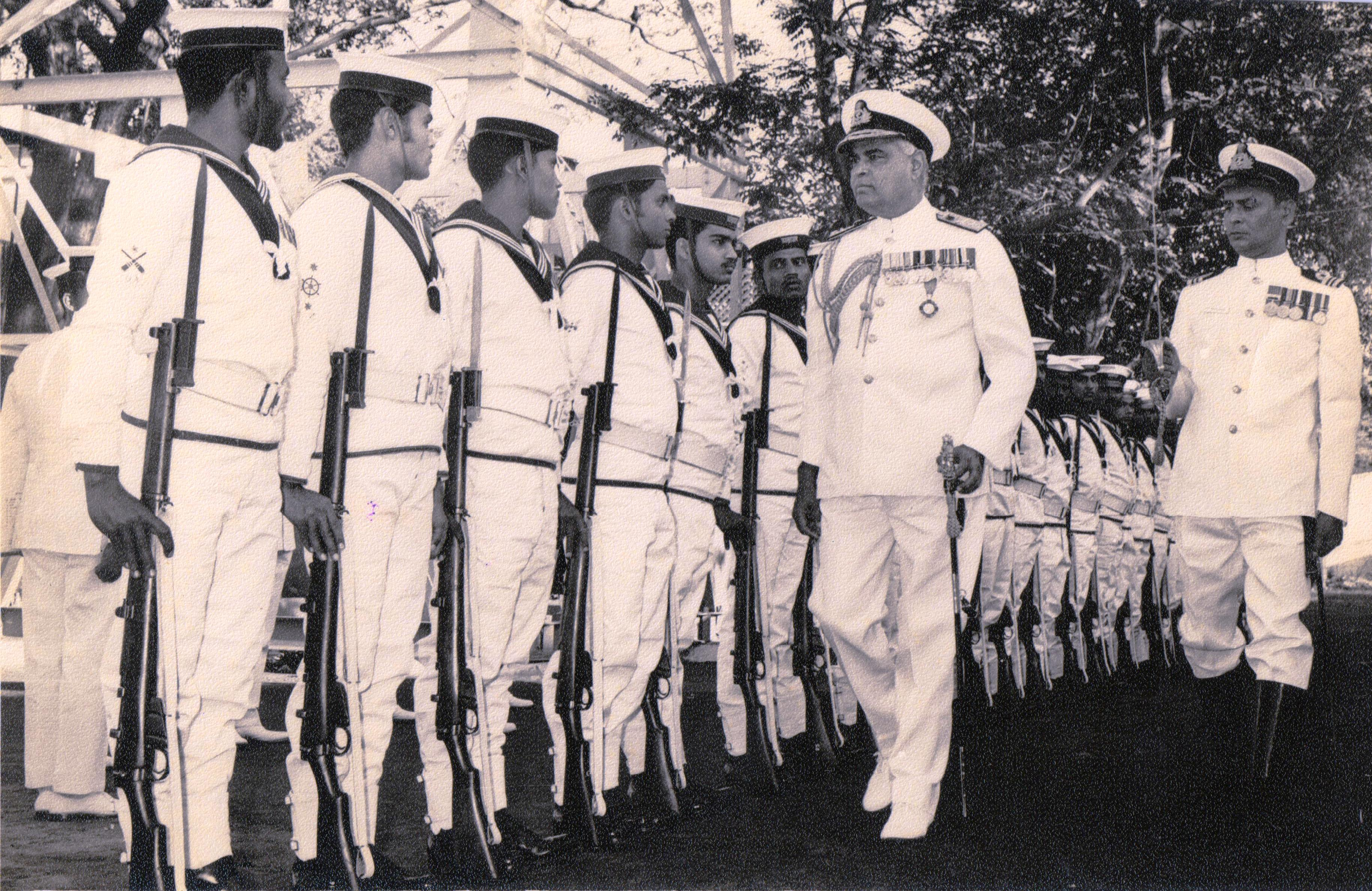 Guard of Honour for Admiral NandaKumarrajendran 07:32, 6 August 2011 (UTC)